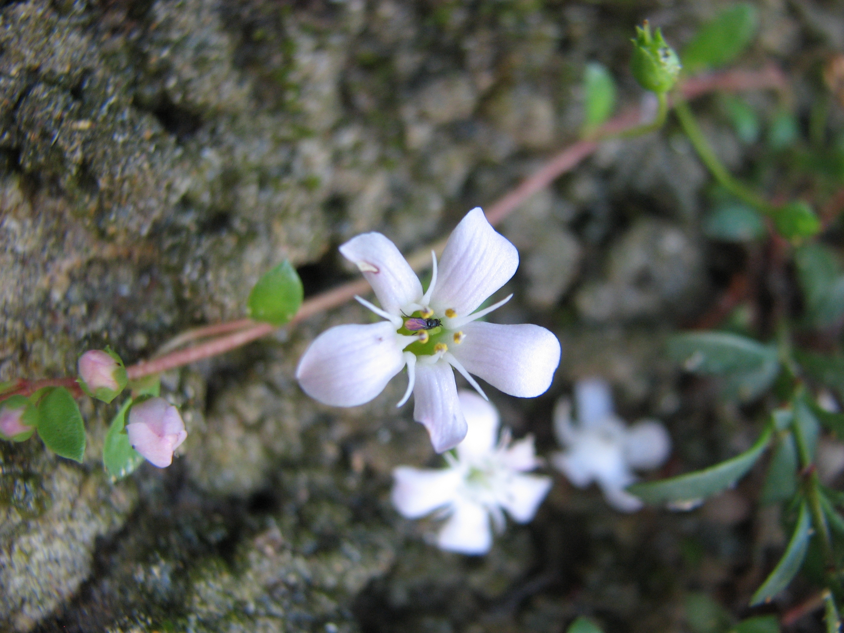 Samolus repens, Cape Otway, Victoria, Australia